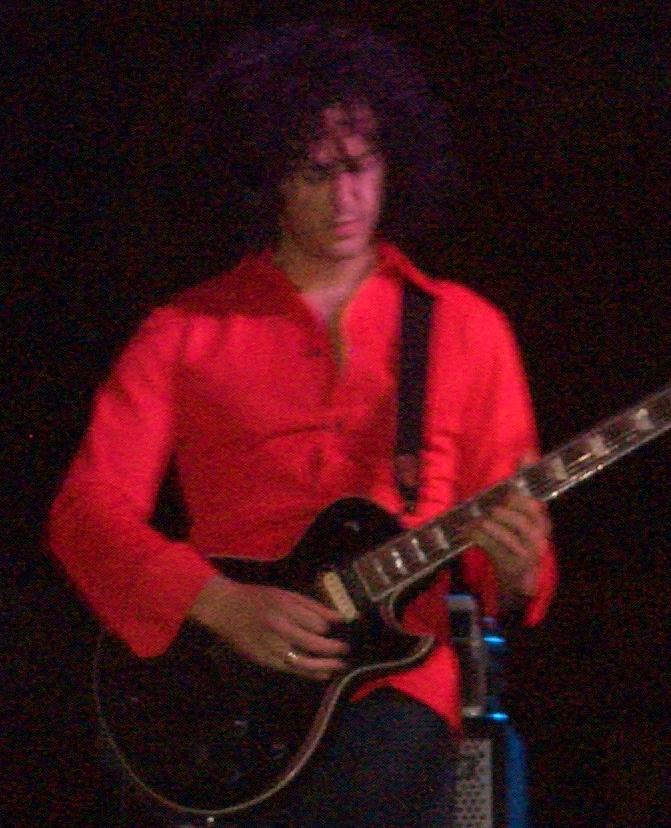 Pedro Caparros López from Breed 77